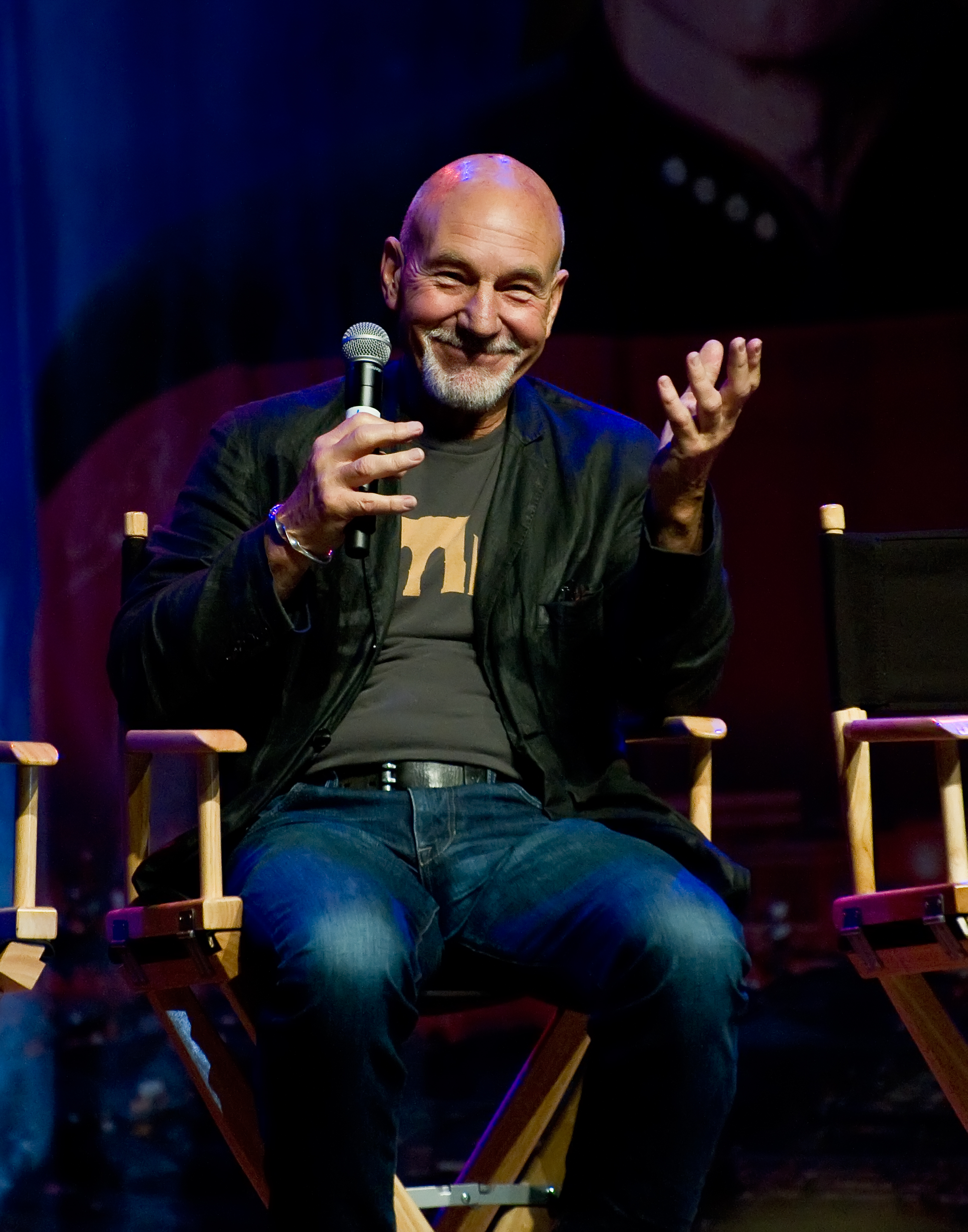 Patrick Stewart (Picard) at the Las Vegas Star Trek Convention 2011.